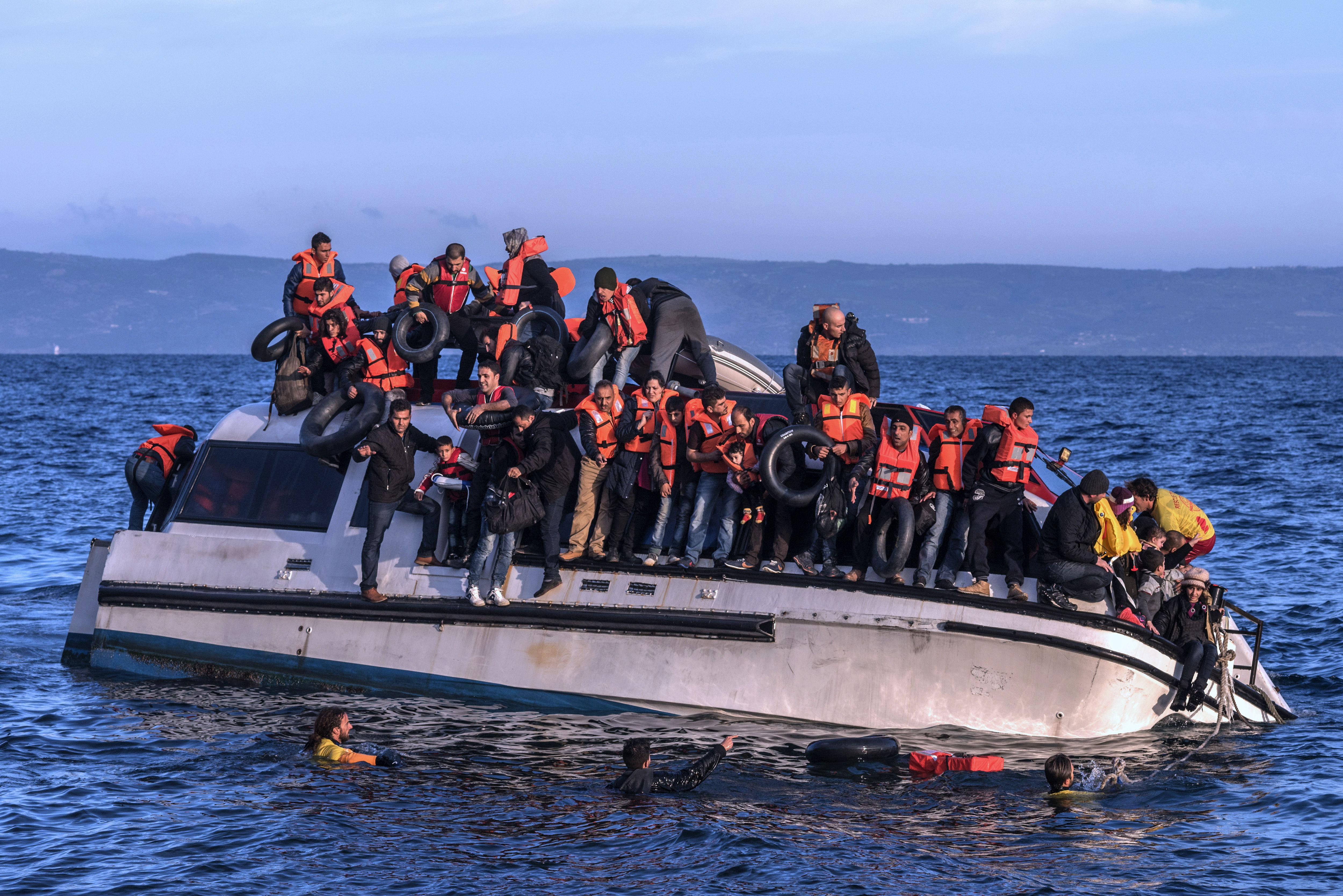 Syrian and Iraq refugees arrive from Turkey to Skala Sykamias, Lesvos island, Greece. Spanish volunteers (life rescue team - with yellow-red clothes) from "Proactiva open arms" help the refugees.